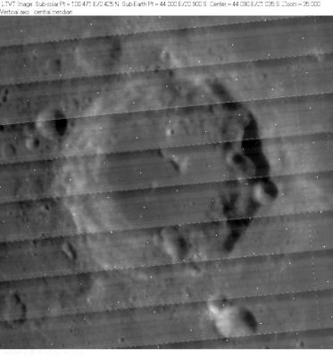 LO-IV-065H The named satellite craters visible here are 10-km Santbech H (just outside the rim at 10 o’clock); 14-km Santbech J (outside the rim at 11 o’clock); 8-km Santbech D (just past 3 o’clock); and 12-km Santbech E (in the lower right).